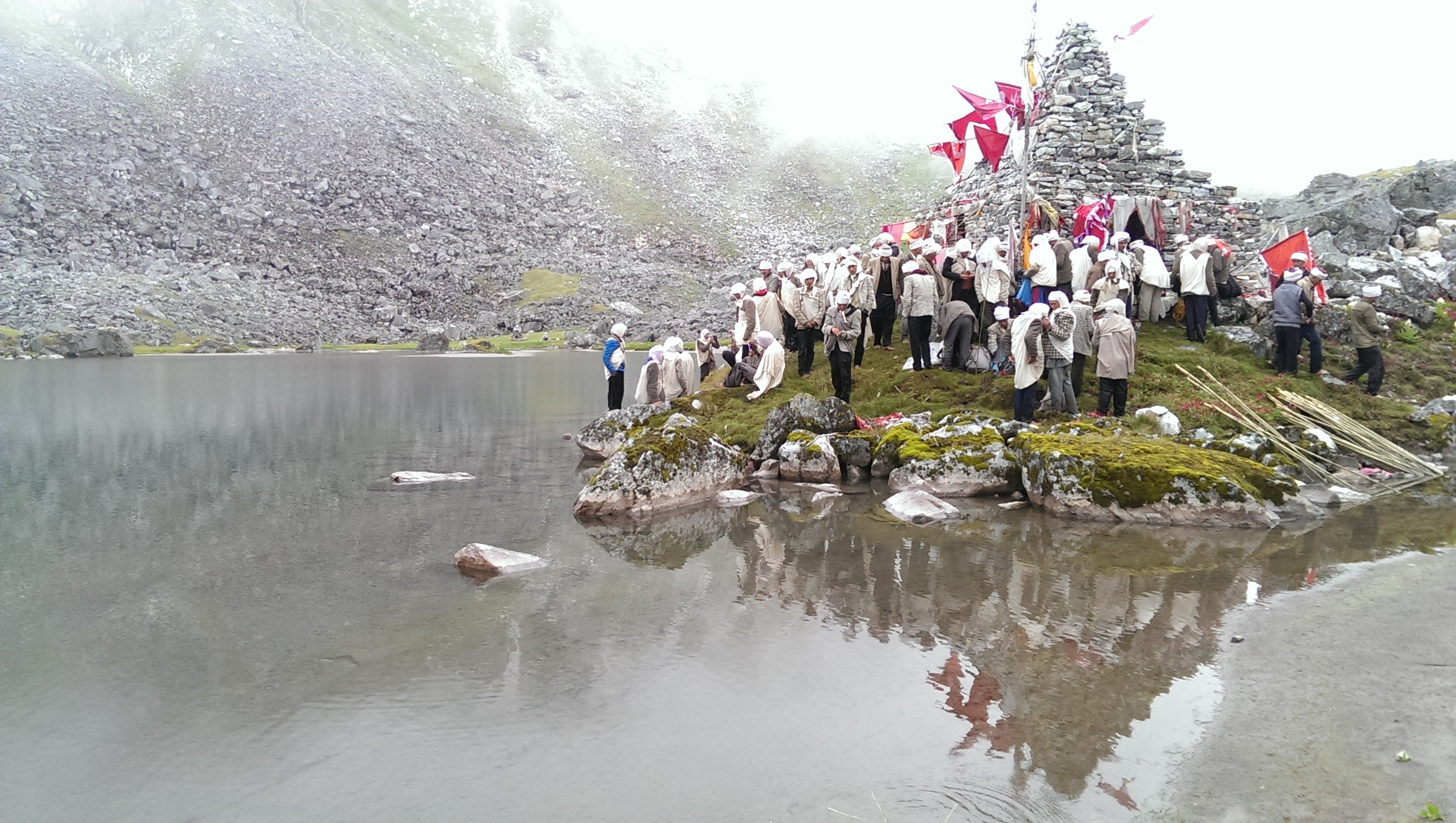 Surmadevi